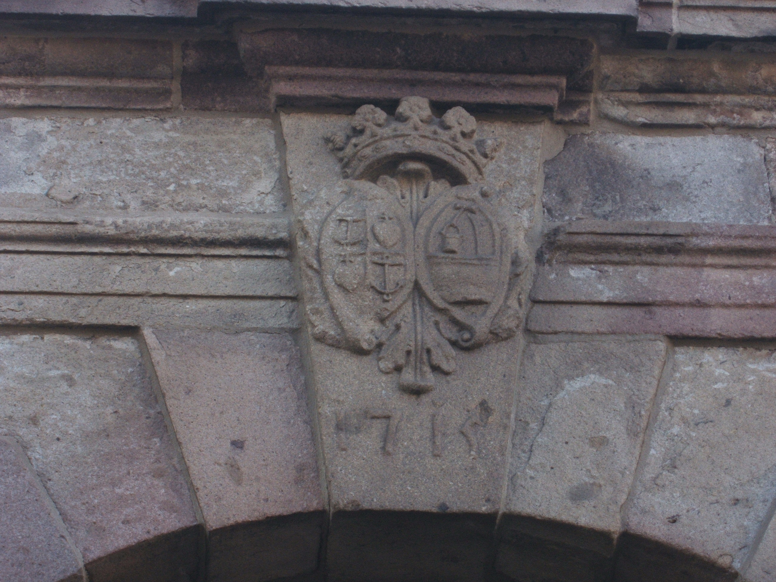 Hof Kaldenberg in Düsseldorf-Wittlaer (Einbrungen)